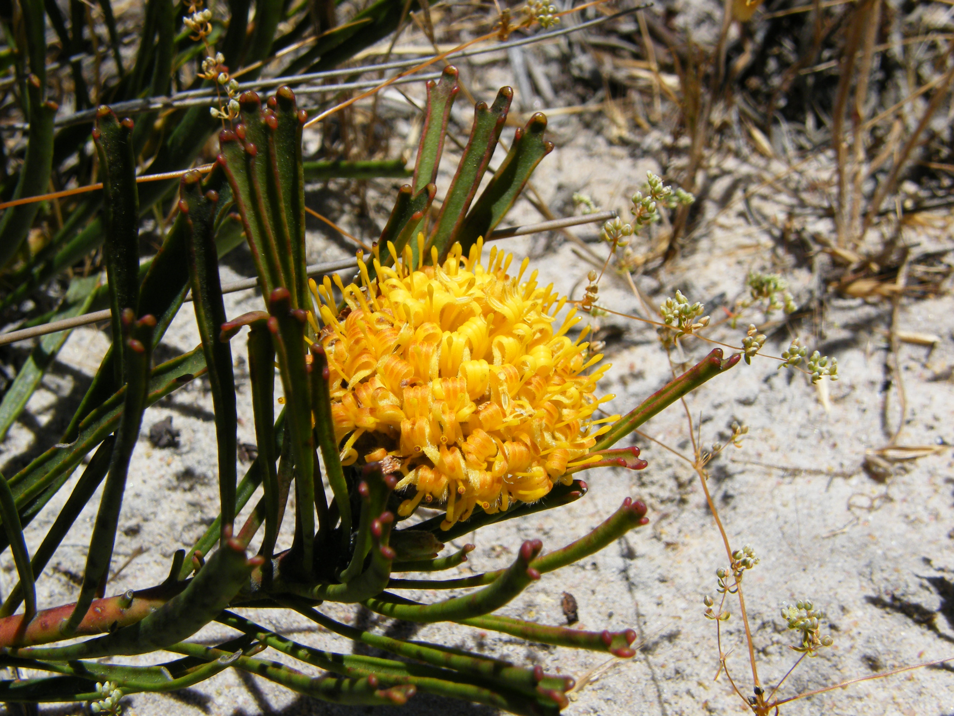 Gray snakestem pincushion.